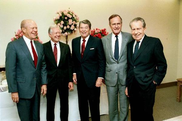 U.S. Presidents Gerald Ford, Jimmy Carter, Ronald Reagan, George H. W. Bush and Richard Nixon at the dedication of the Ronald Reagan Presidential Library.